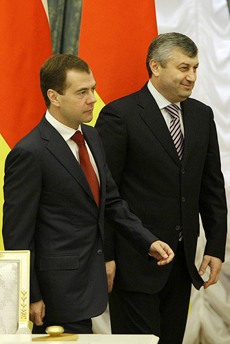 THE KREMLIN, MOSCOW. With President of South Ossetia Eduard Kokoity after signing agreement on joint efforts to protect the state border of the republic of South Ossetia